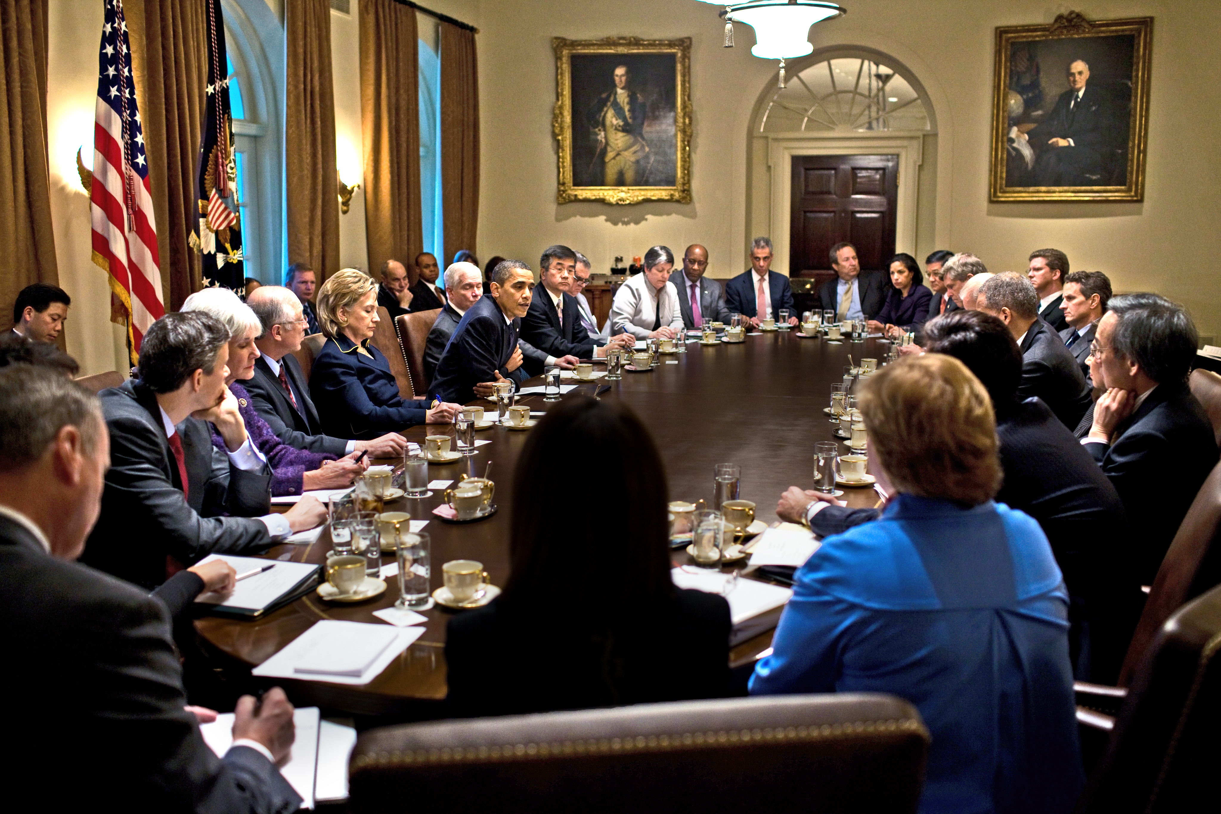 President Barack Obama holds a Cabinet meeting in the Cabinet Room of the White House, Nov. 23, 2009.